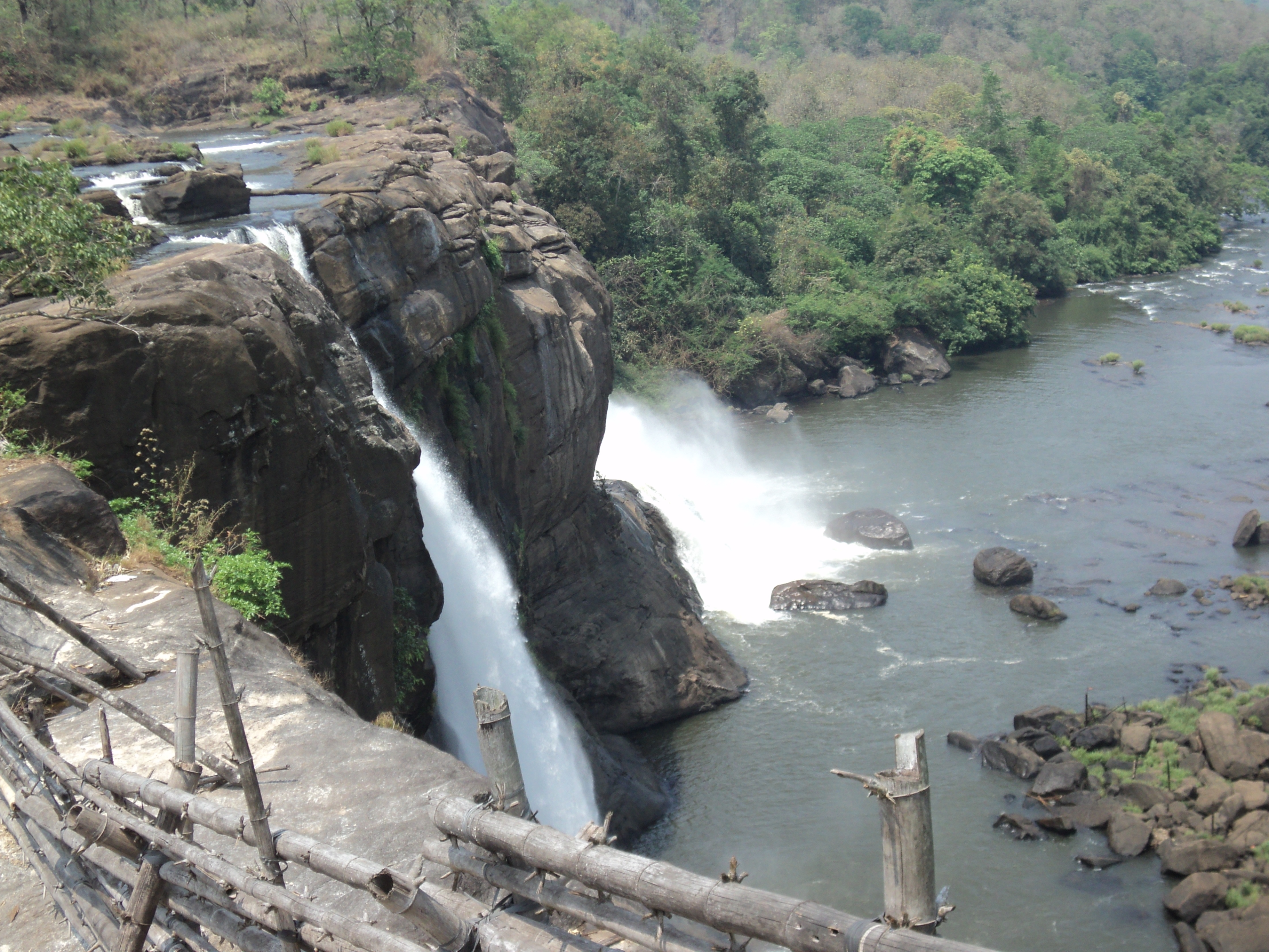 Athirappalli Water Falls